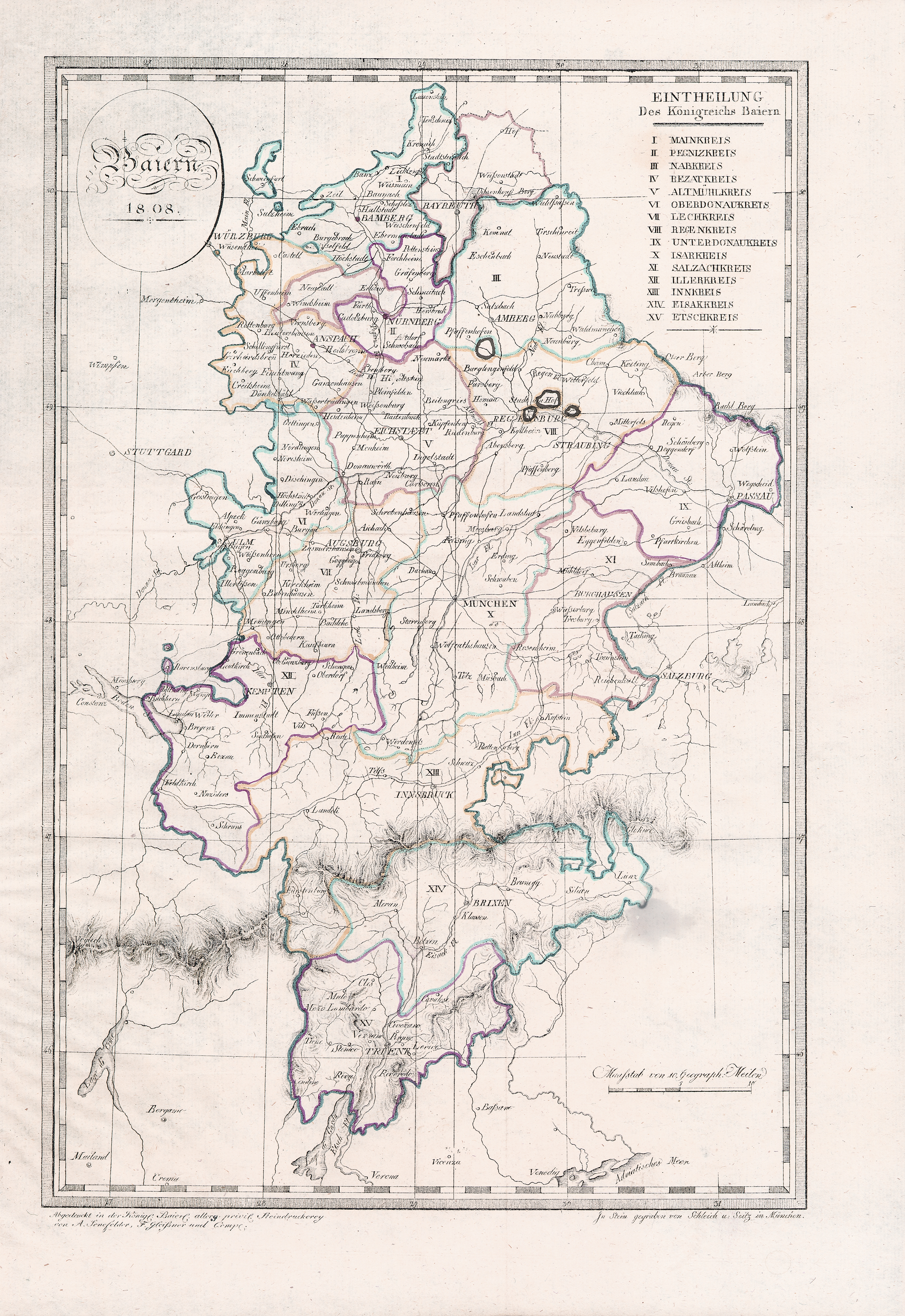 The Kingdom of Bavaria in 1808 which included Tyrol.